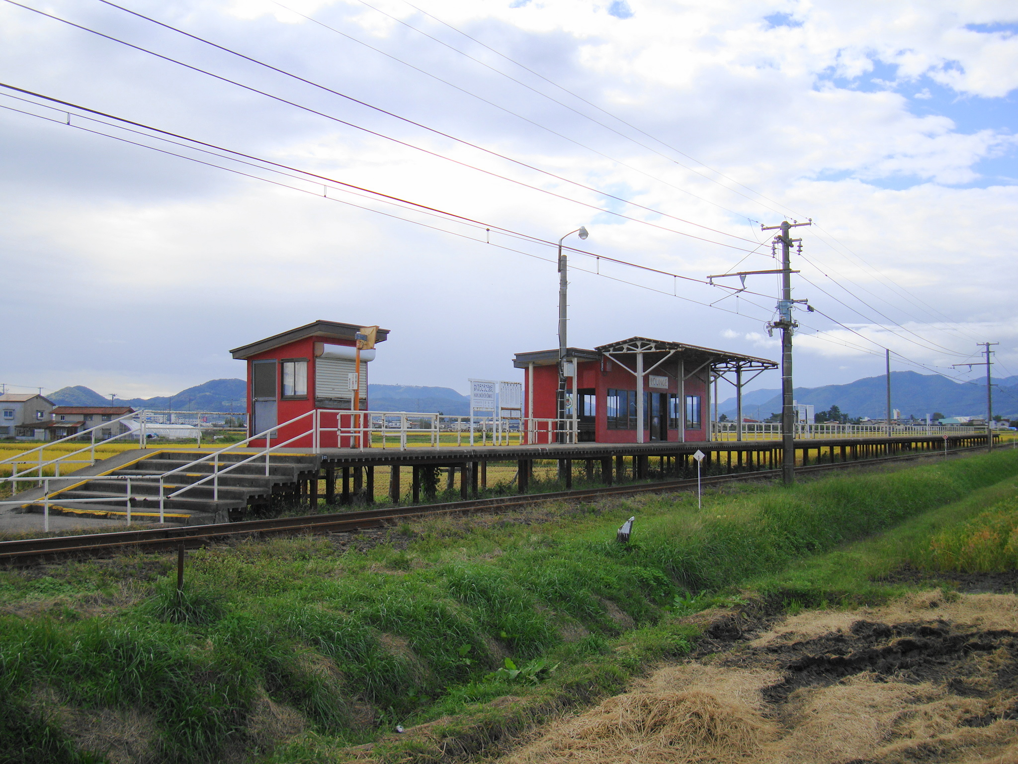 Hakunō Kōkō-mae Station